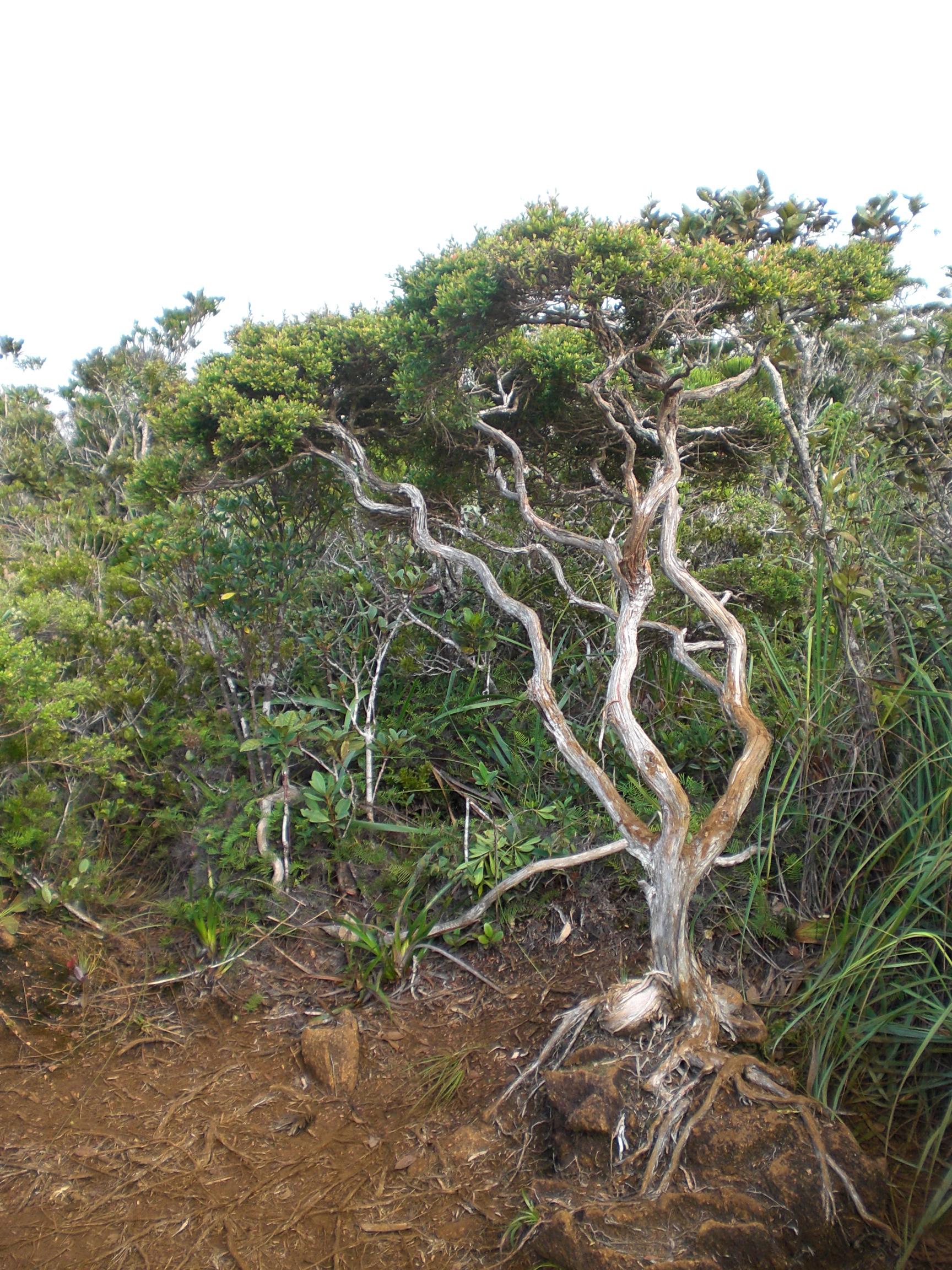 A natural bonsai tree growing in the bonsai forest of Mount Hamiguitan (Philippines)